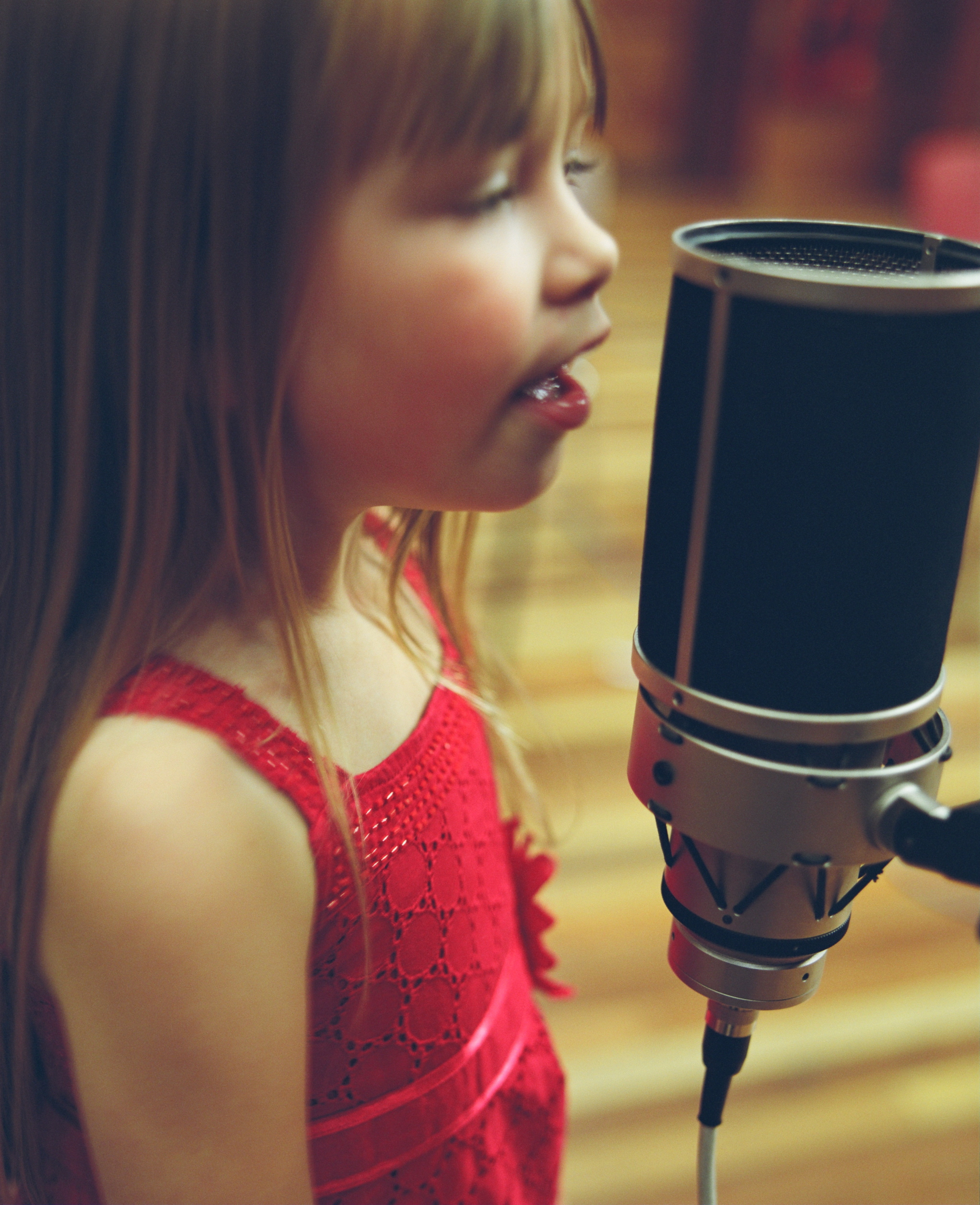 British child singer Connie Talbot recording the song "Smile" for Sony BMG